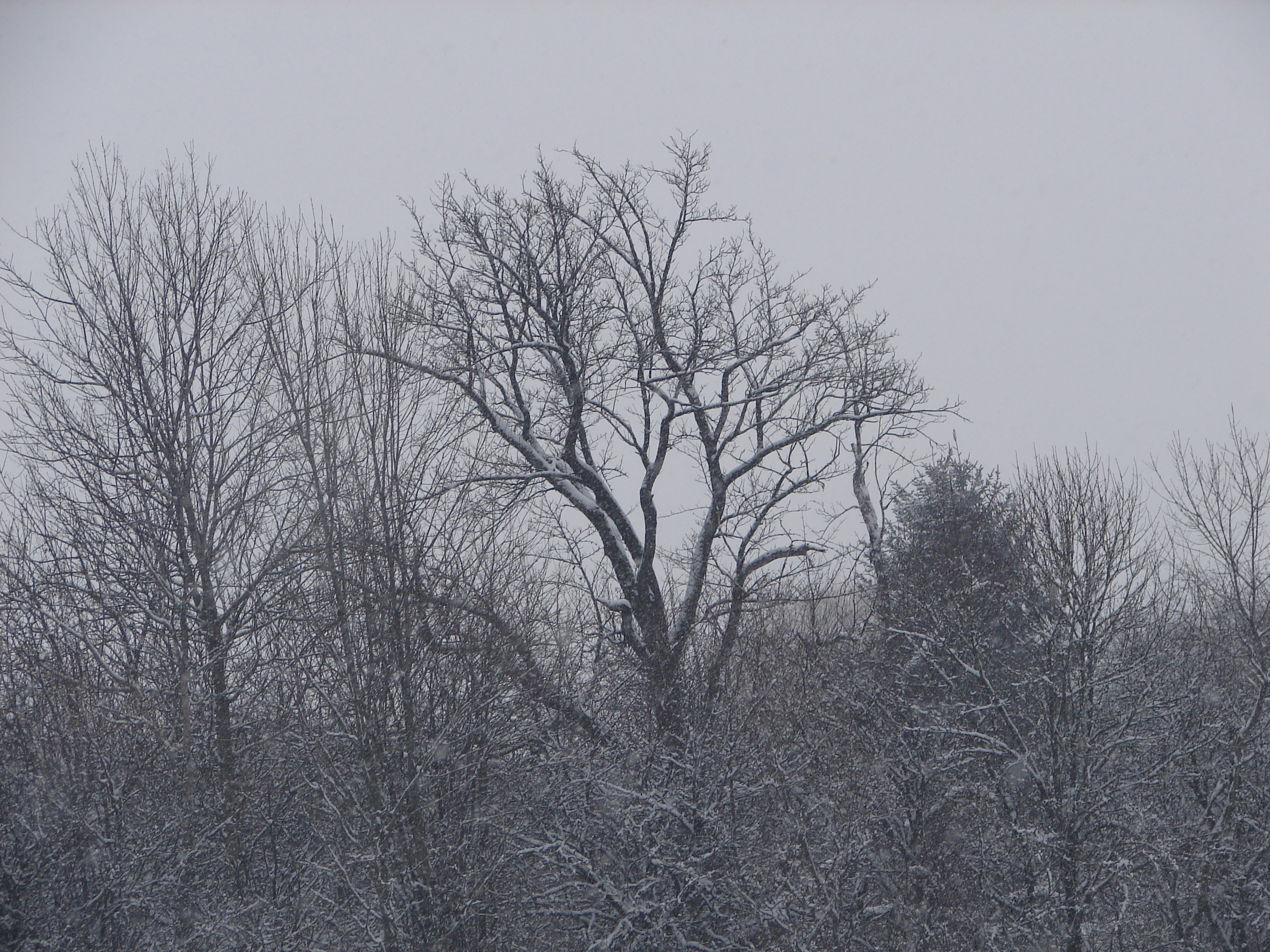 Memorable tree Tomečkova oskoruša in Hodonín District, Czech Republic. Service Tree, Sorbus domestica.